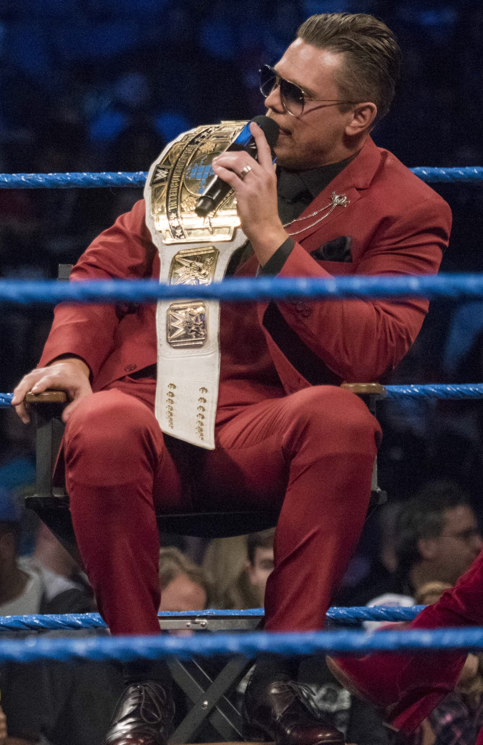 WWE performers AJ Styles and The Miz participate in the 14th Annual Tribute to the Troops Event at the Verizon Center in Washington, D.C., Dec. 13, 2016. WWE Tribute to the Troops is an annual event held by WWE and Armed Forces Entertainment in December during the holiday season since 2003, to honor and entertain United States Armed Forces members. WWE performers and employees travel to military camps, bases and hospitals, including the Walter Reed National Military Medical Center at Naval Support Activity Bethesda.. DoD Photo by Navy Petty Officer 2nd Class Dominique A. Pineiro